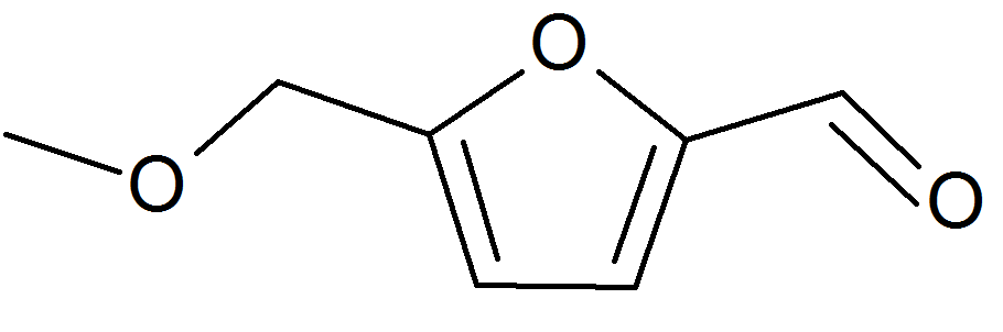 Structure of Methoxymethylfurfural